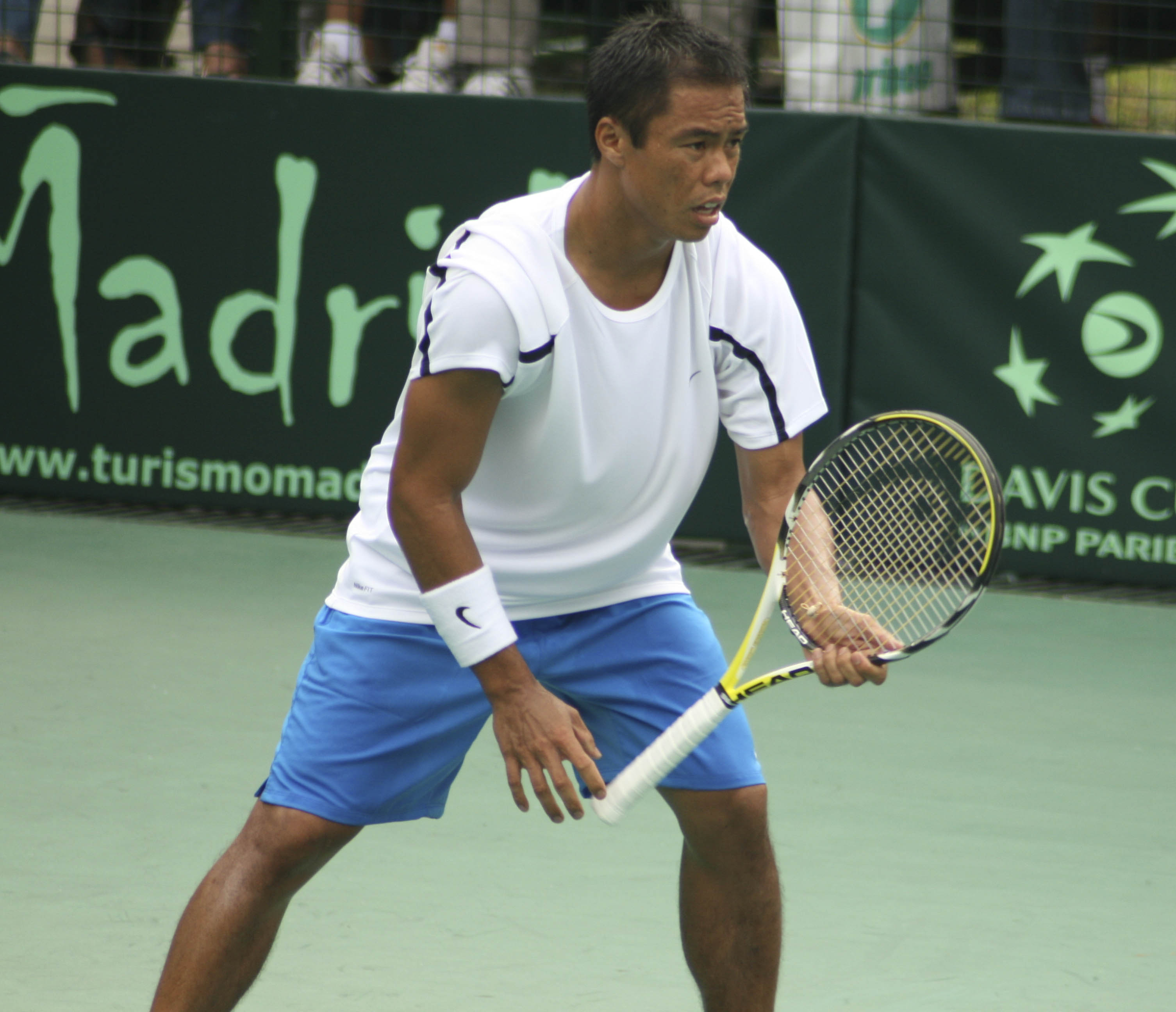 Cecil Mamitt playing for the Philippine Davis Cup team against Spain in February 2008